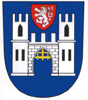 Coat of arms of Náchod